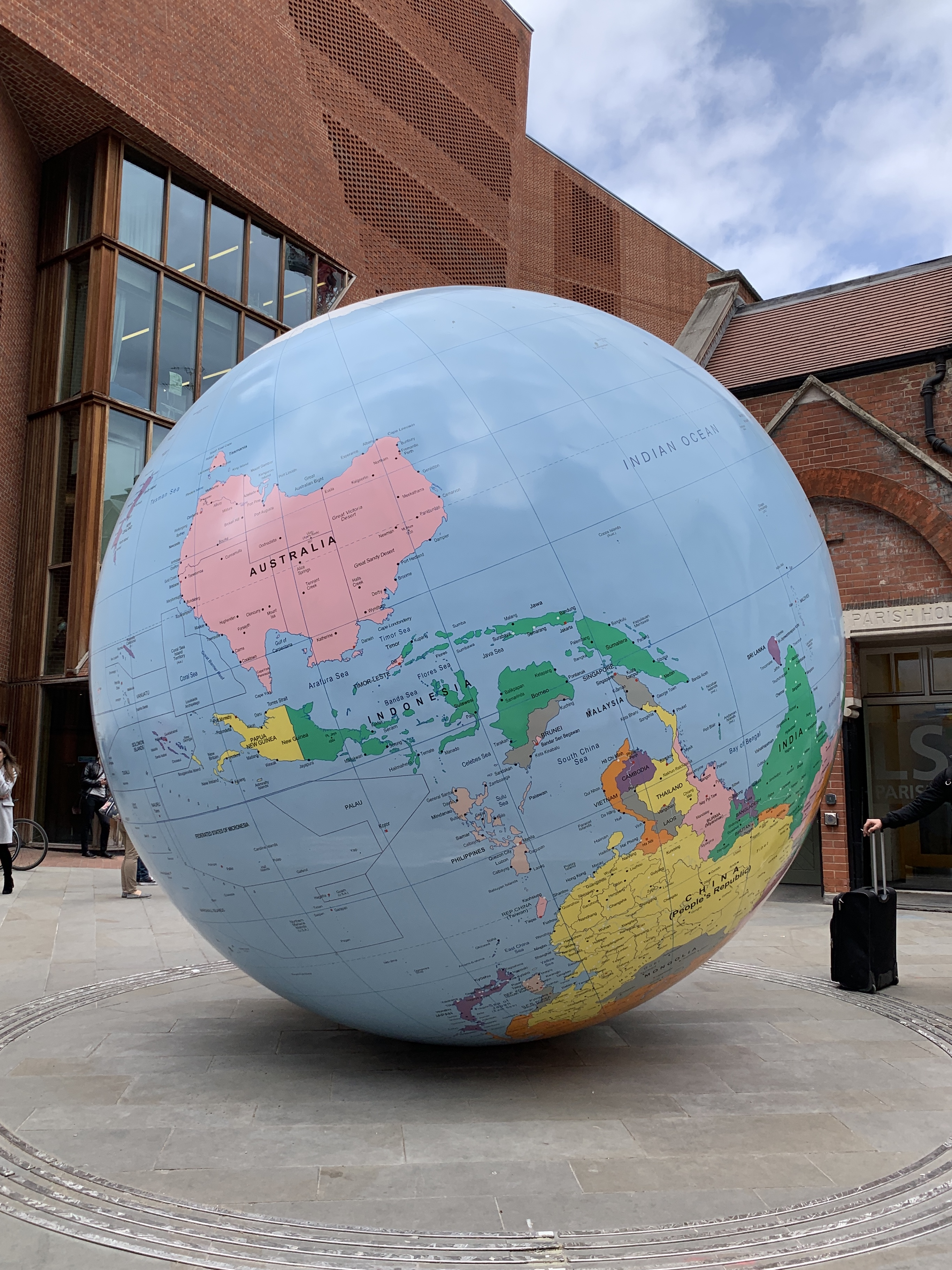 Sculpture by Mark Wallinger at the London School of Economics, unveiled in March 2019. The island of Taiwan is coloured differently from mainland China.